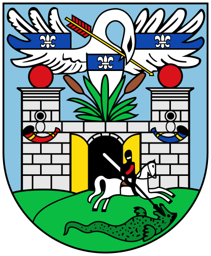 Jiřetín pod Jedlovou CoA CZ